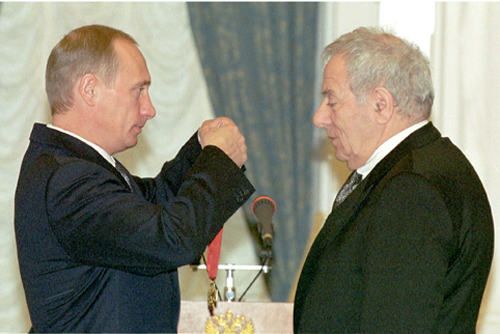 KREMLIN, MOSCOW. Film director Pyotr Todorovsky receiving the Order for Service to the Fatherland, 3rd Class at a state award ceremony.